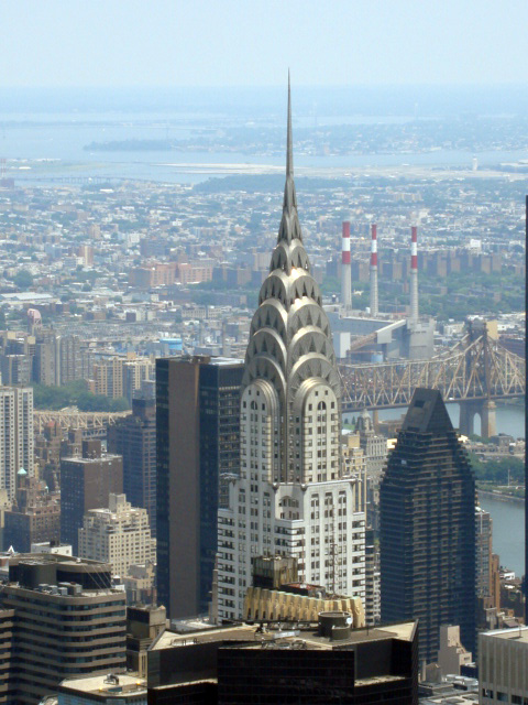 A view of the Chrysler Building from the Empire State Building